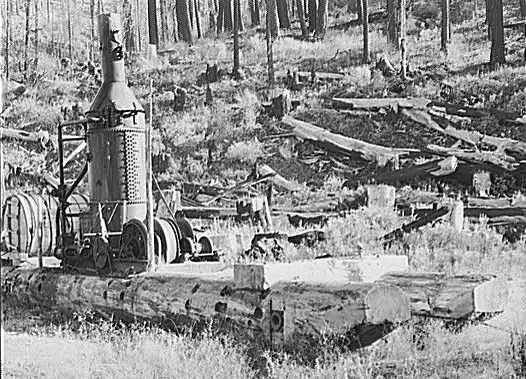 Tillamook County, Oregon. Donkey engine on skids. This engine provides power for lumbering operations and the skids make for easy transportation in the woods